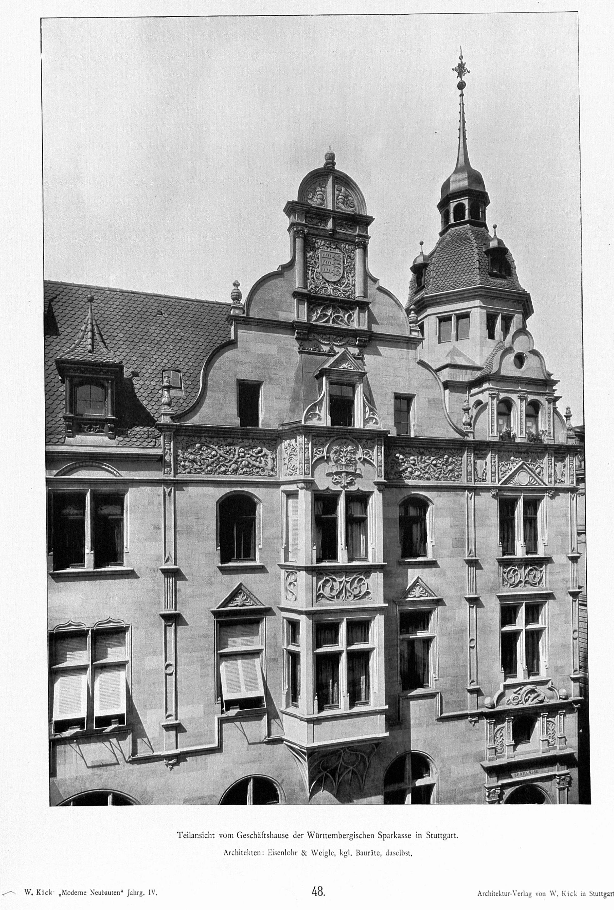 Haus_Württemberg._Sparkasse_Stuttgart_Architekten_Eisenlohr_&_Weigle_kgl._Bauräte_Stuttgart.jpg